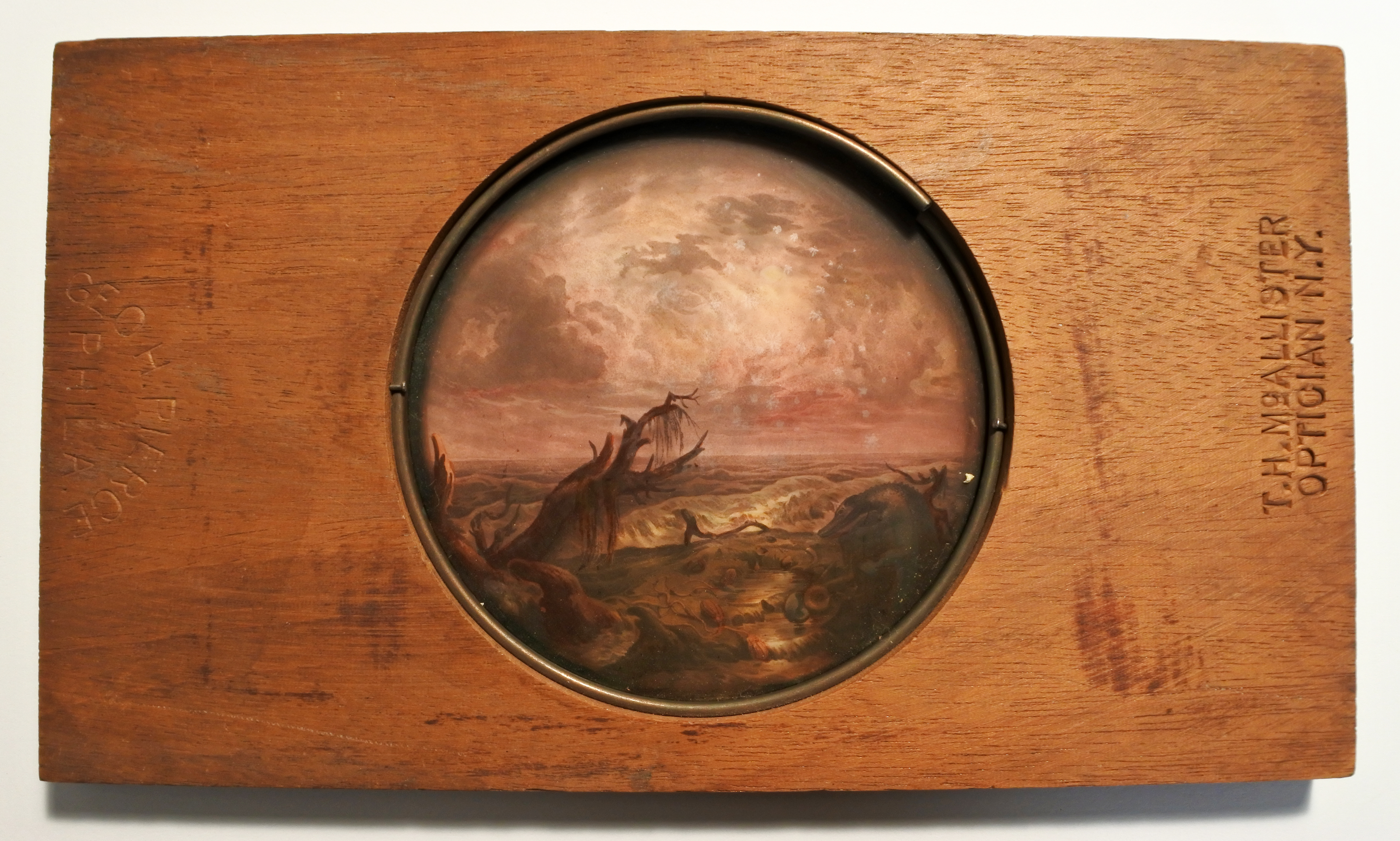 Magic Lantern Slide with a wooden frame and geological topic; late 19th Century.